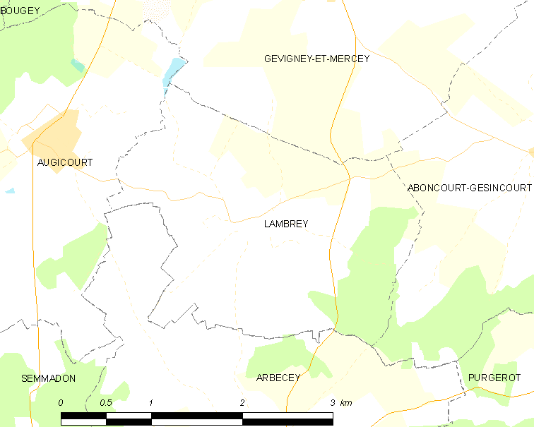 Map of French municipality